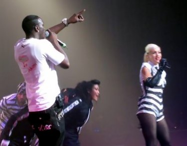 Akon and Gwen Stefani performing "The Sweet Escape" at the Verizon Wireless Amphitheatre in Charlotte, North Carolina, United StatesIMG_5352